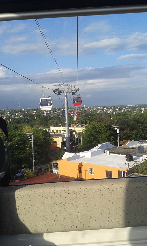 Santo Domingo Cable Car